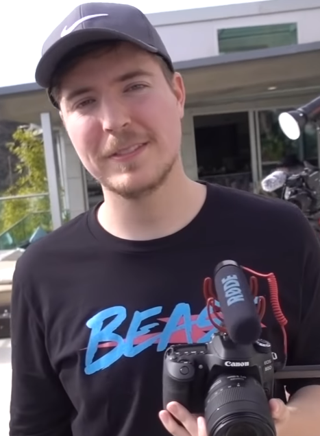 Screenshot of MrBeast, taken from Leon Lush's Youtube video